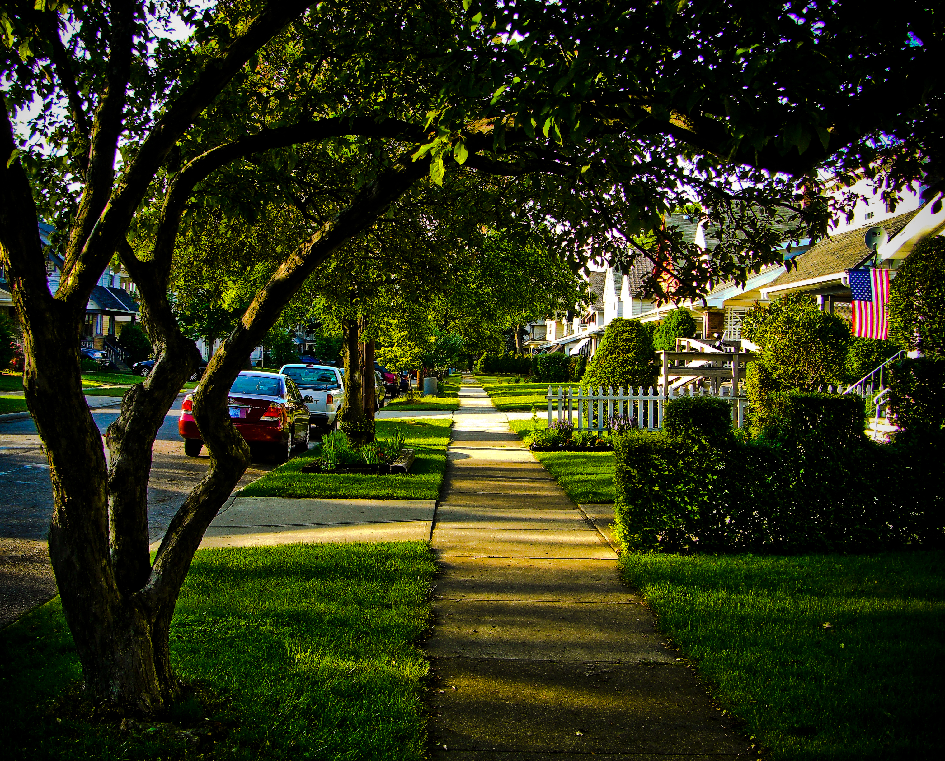 A side street in Lakewood, Ohio